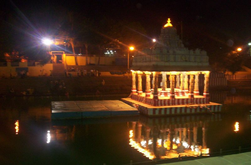 Swami Pushkarini is situated next to the Tirumala Venkateswara Temple and the water here is considered to arrive from the various holy streams in the Tirumala hills